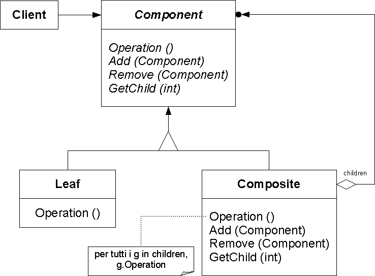 Structure of the "Composite" design pattern. My own work following a figure on the book "Design Patterns" by Gamma, Helm, Johnson, Vlissides.